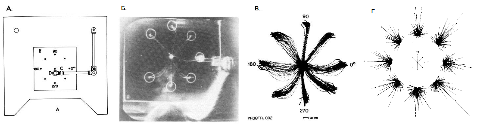 Adapted and modified from The representation of movement direction in the motor cortex: Single cell and population studies by AP Georgopoulos, JF Kalaska, MD Crutcher, R Caminiti, JT Massey. In Dynamic Aspects of Neocortical Function, eds Edelman, 1984